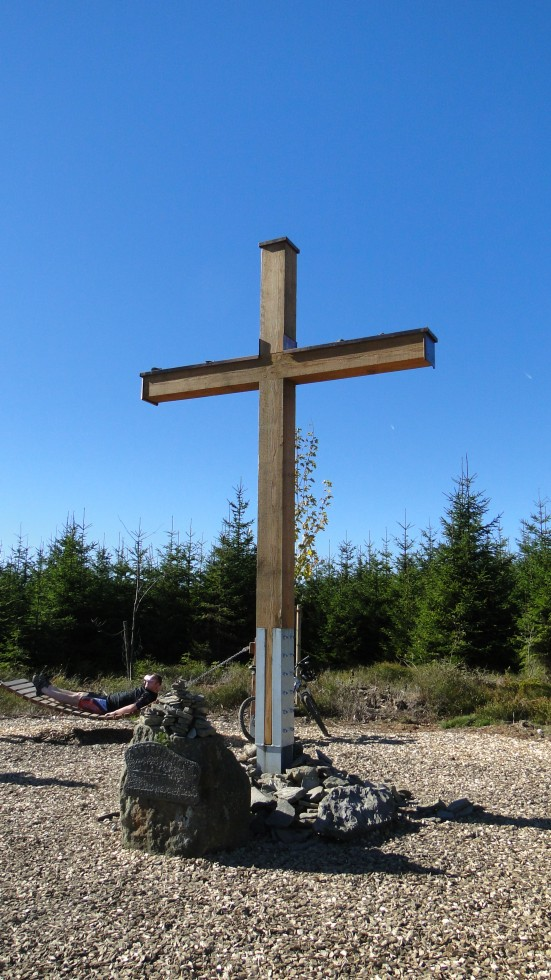 The summit cross on Langenberg, with 843m the highest mountain of Northrhine-Westphalia and the Rothaargebirge.